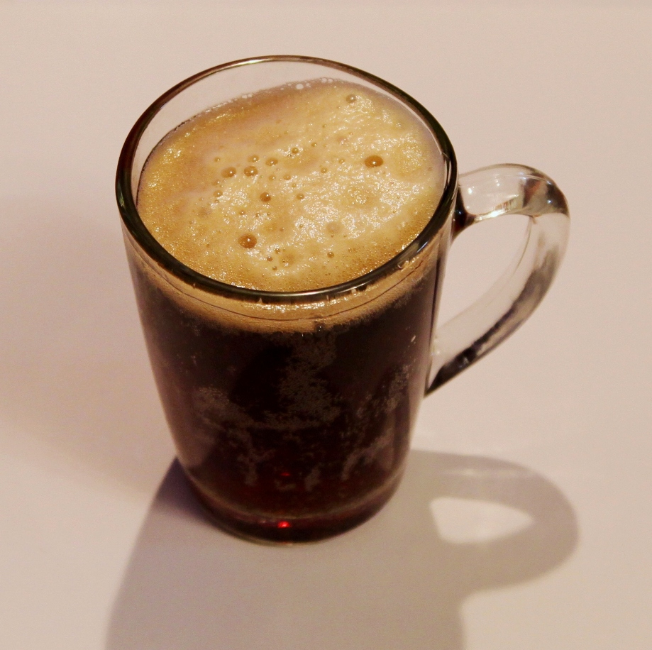 Sbiten